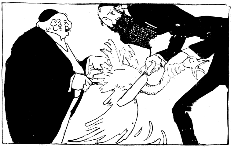 Păcăleală de 1 Aprilie. Pe ziua de 1 Aprilie, comunitatea israelită din Buhuşi a încredinţat d-lui Iorga slujba de haham al acelei localităţi. ("April's Fool. On April 1, the Israelite community of Buhuşi has entrusted Mr. Iorga with the office of Hakham in that locality.") Nicolae Iorga was founder of Romania's Democratic Nationalist Party, with a strongly antisemitic agenda.